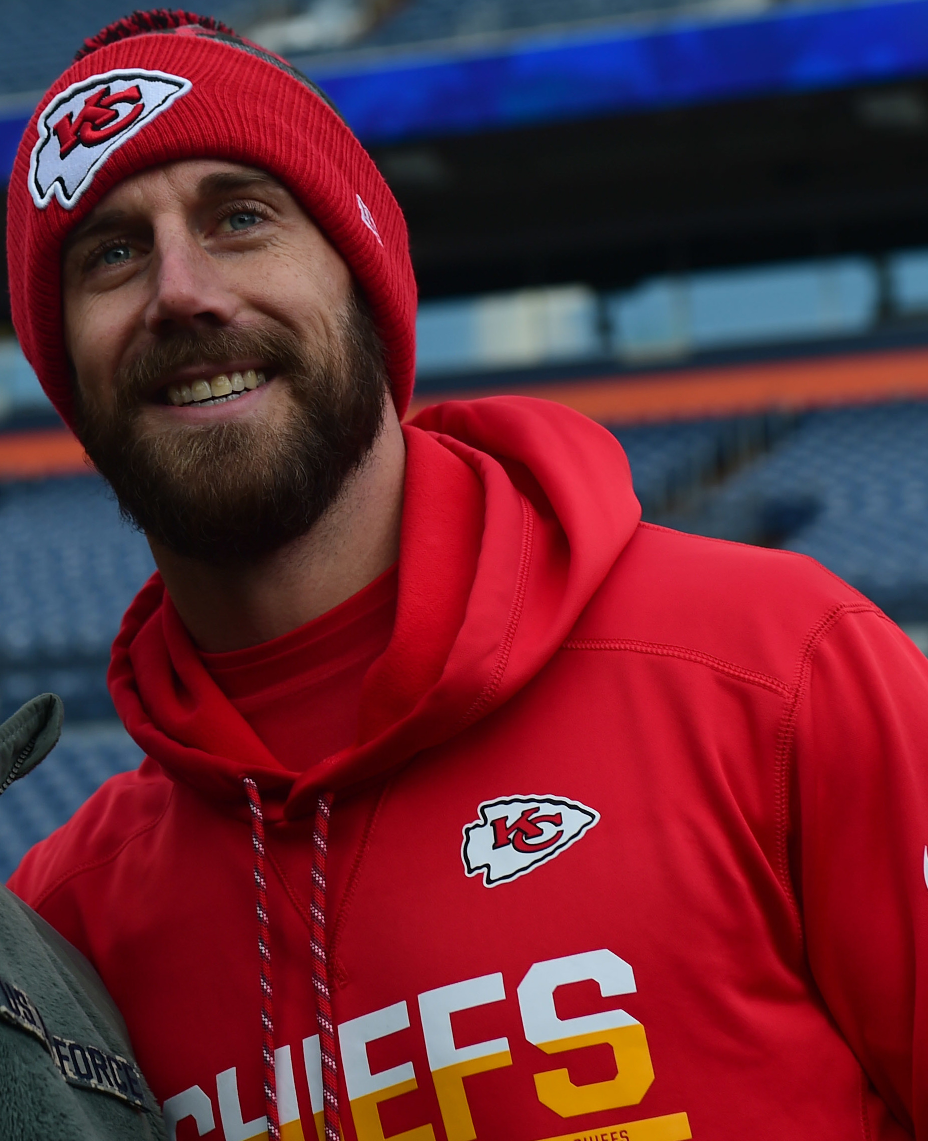 Col. Lorenzo Bradley, 460th Operations Group commander, takes a selfie with Alex Smith, Kansas City Chiefs quarterback, before a Denver Broncos Salute to Service pregame ceremony Nov. 27, 2016, at Sports Authority Field at Mile High in Denver. The event started as both Broncos and Chiefs members took the time to thank service members by taking photos and sign autographs. (U.S. Air Force photo by Airman 1st Class Gabrielle Spradling/Released)